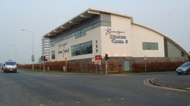 Health Club